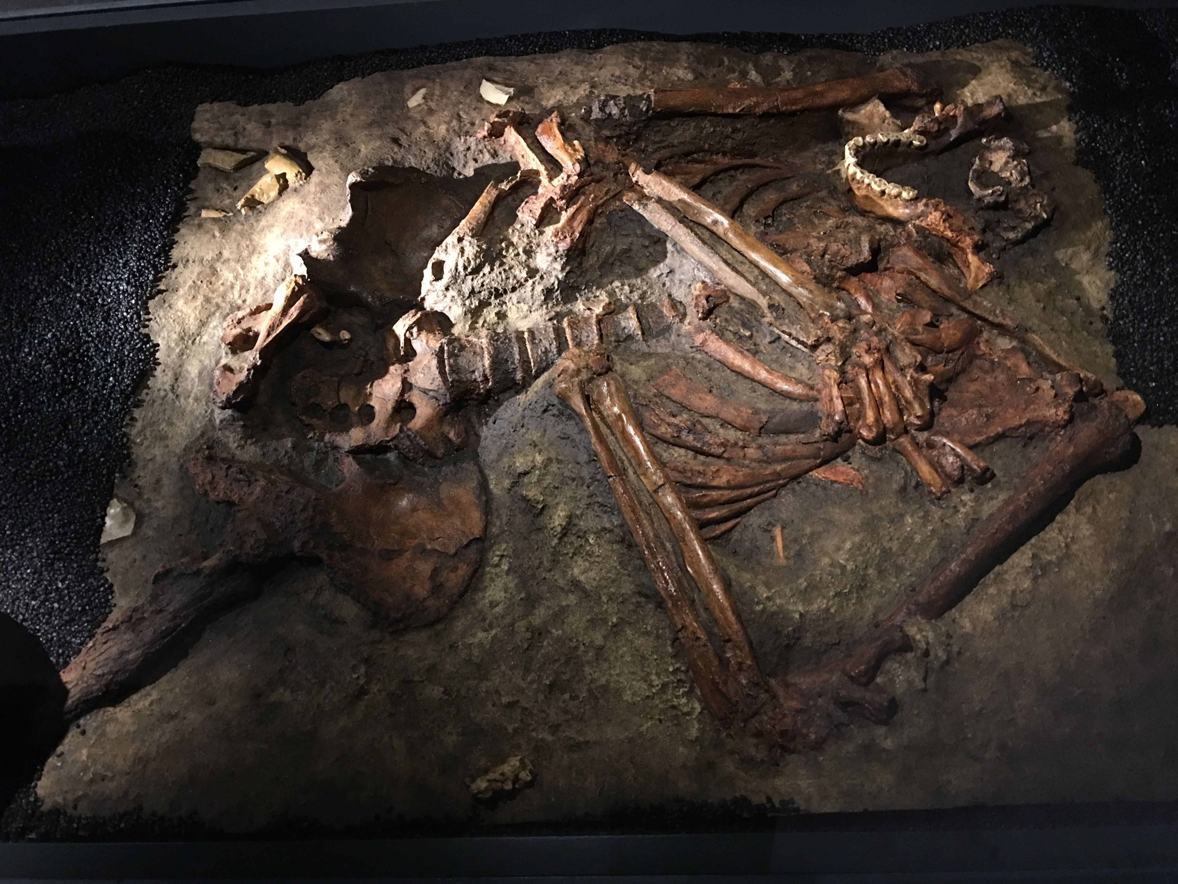 Replica of Kebara 2's skeleton as found in 1983. Natural History Museum, London.